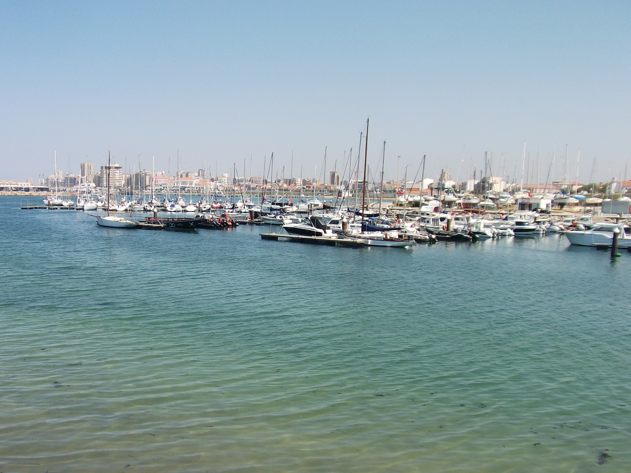 Port of Póvoa de Varzim, Portugal